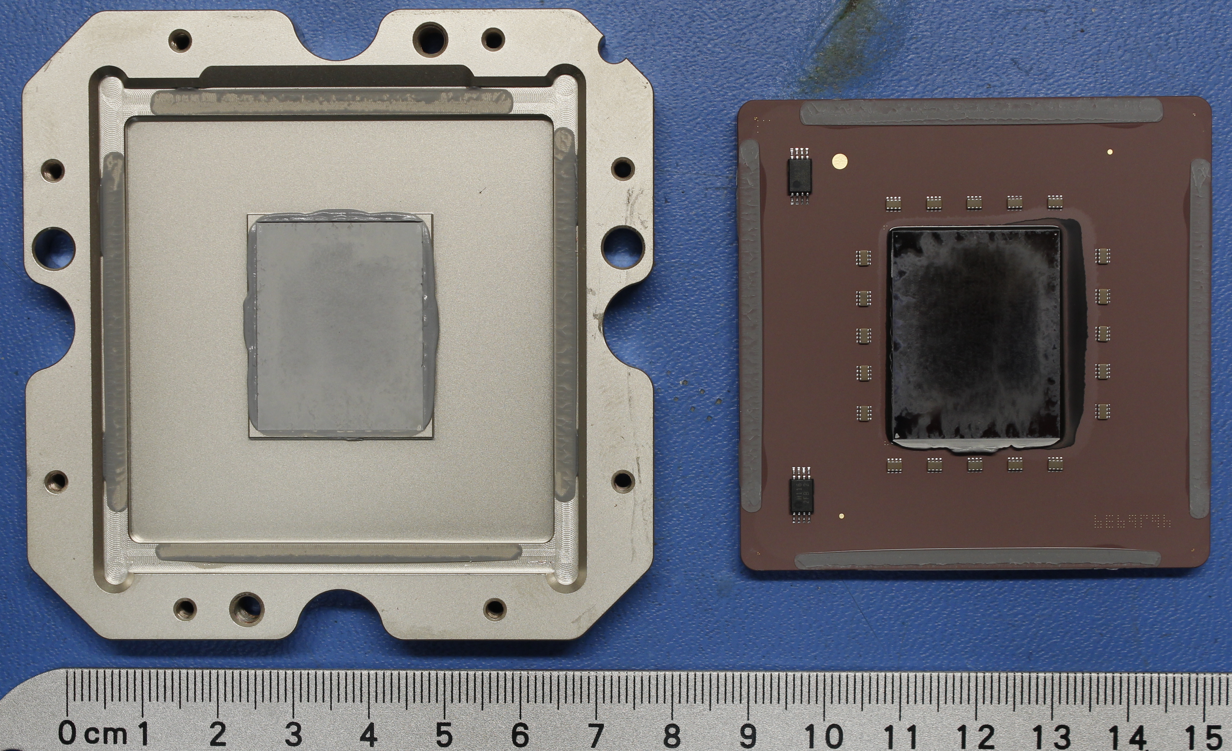 IBM Power7 4ghz 8-way CPU and IHS from an IBM 9119